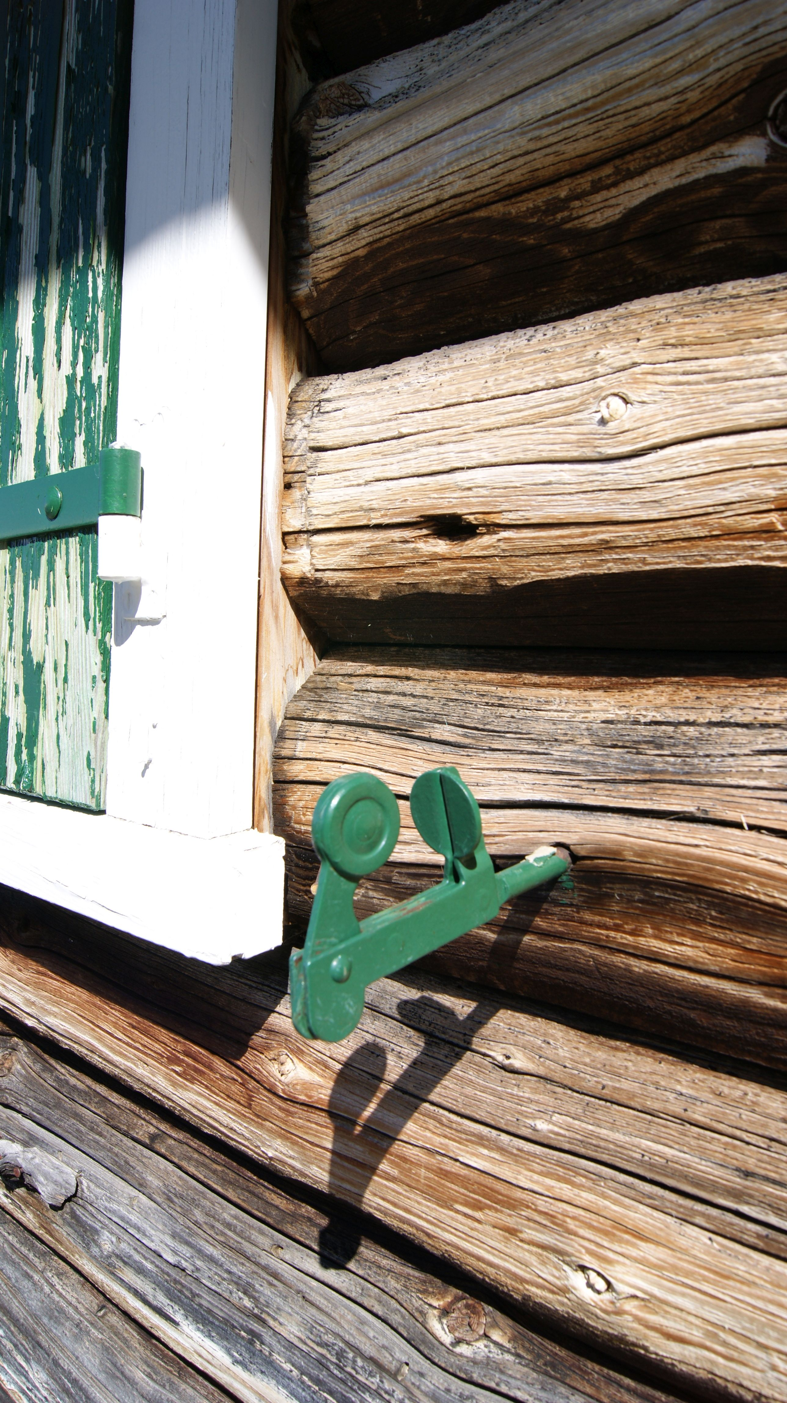 Gafadurahuette, Planken, Principality of Liechtenstein. Shutter holder.